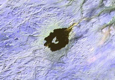 Mistastin Lake meteor crater, Labrador, Canada Landsat 7 Bands 754 (rgb) Image acquired: Nov 7th, 2000 by Ron Hayes, USGS